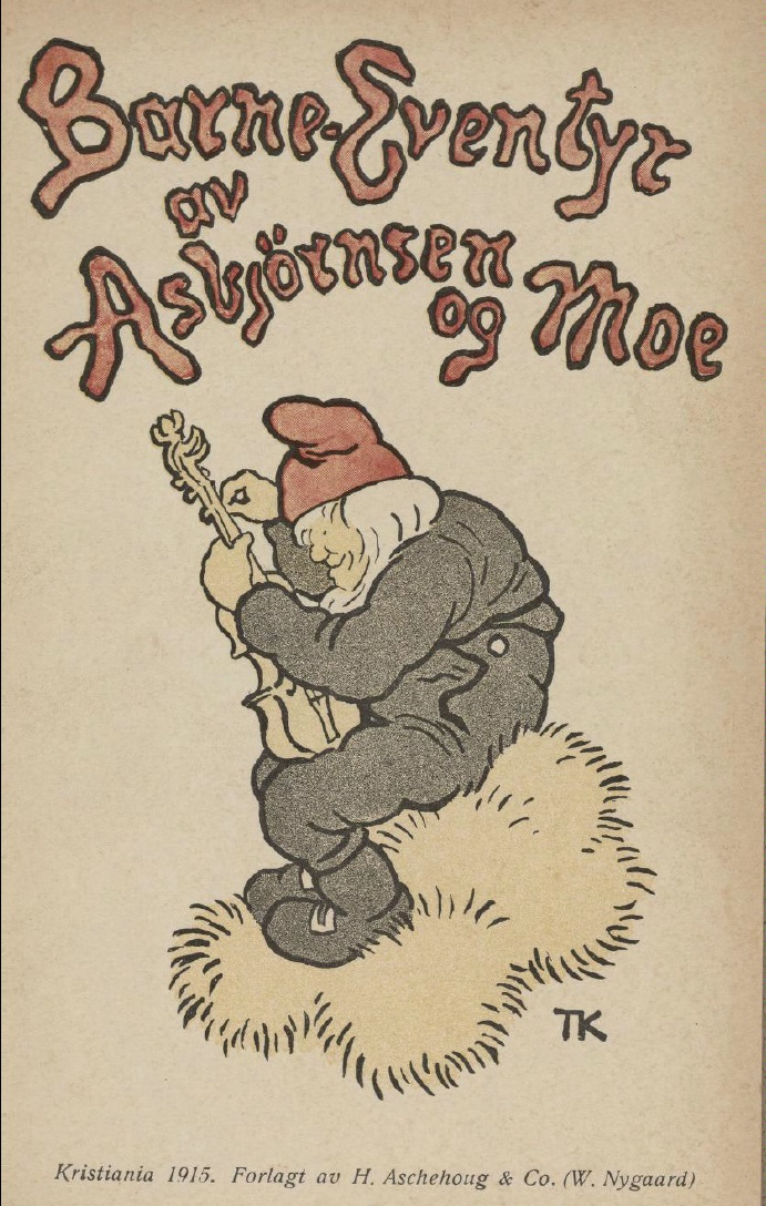 Theodor Kittelsen: Barne-eventyr (Folktales for children) inset Artist Theodor Kittelsen (1857–1914) Alternative names Theodor Severin KittelsenDescriptionNorwegian artistDate of birth/death 27 April 1857 21 January 1914Location of birth/death Kragerø, Norway Jeløya, NorwayAuthority control : Q380085 VIAF: 59140681 ISNI: 0000 0001 0905 5794 ULAN: 500080675 LCCN: n94063463 NLA: 35274308 WorldCat artist QS:P170,Q380085Title Barne-eventyr (Folktales for children) insetlabel QS:Len,"Barne-eventyr (Folktales for children) inset"Date 1915date QS:P571,+1915-00-00T00:00:00Z/9Source/Photographer Barne-eventyr[1], Kittelsen, Theodor (d.1914), illustrator, Oslo: Aschehoug, 1915Permission(Reusing this file) This is a faithful photographic reproduction of a two-dimensional, public domain work of art. The work of art itself is in the public domain for the following reason: The author died in 1914, so this work is in the public domain in its country of origin and other countries and areas where the copyright term is the author's life plus 100 years or fewer. You must also include a United States public domain tag to indicate why this work is in the public domain in the United States. This file has been identified as being free of known restrictions under copyright law, including all related and neighboring rights. The official position taken by the Wikimedia Foundation is that "faithful reproductions of two-dimensional public domain works of art are public domain".This photographic reproduction is therefore also considered to be in the public domain in the United States. In other jurisdictions, re-use of this content may be restricted; see Reuse of PD-Art photographs for details.